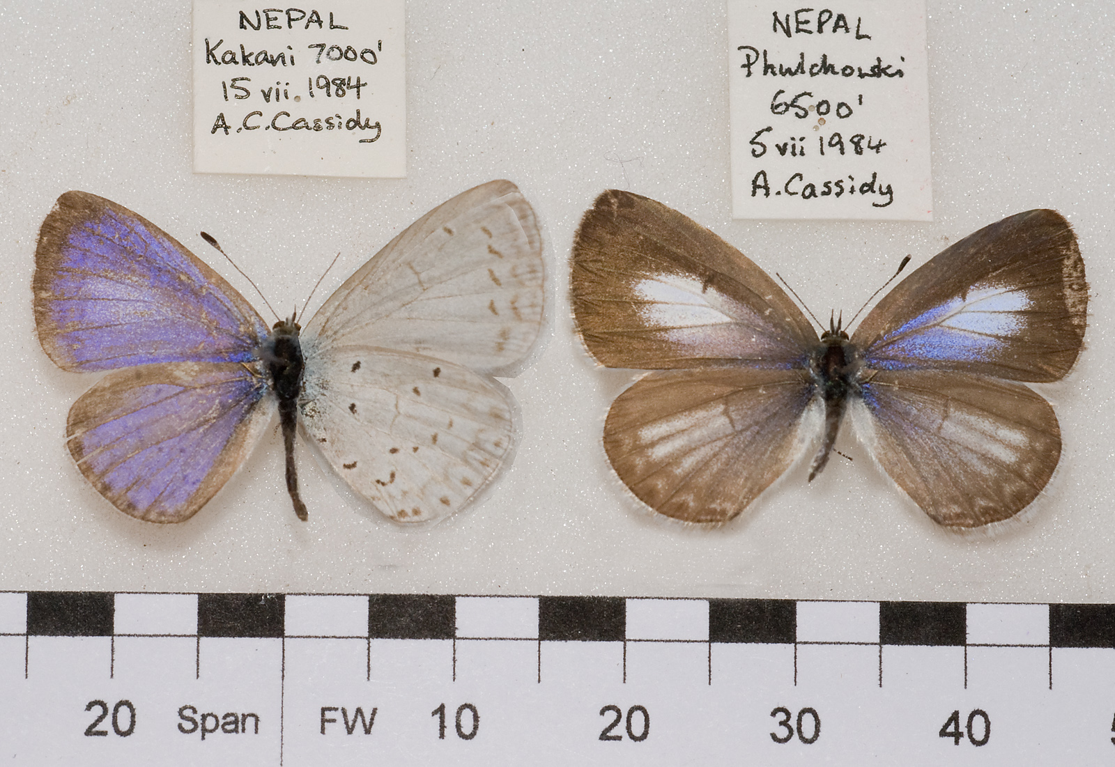 Celastrina argiolus iynteana, male, female, set specimens, Nepal, Alan Cassidy photo.